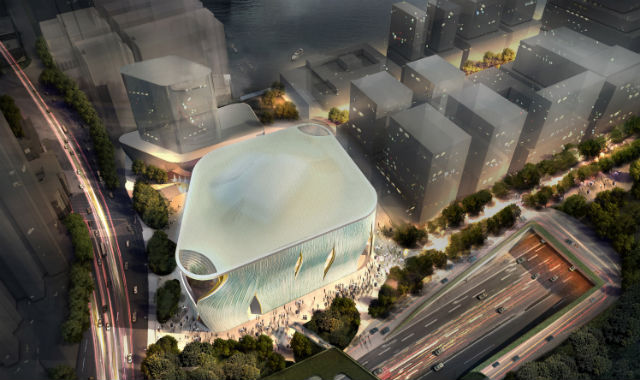 Chinese Opera Centre at West Kowloon Cultural District中文（香港）: 香港戲曲中心．西九龍文化區